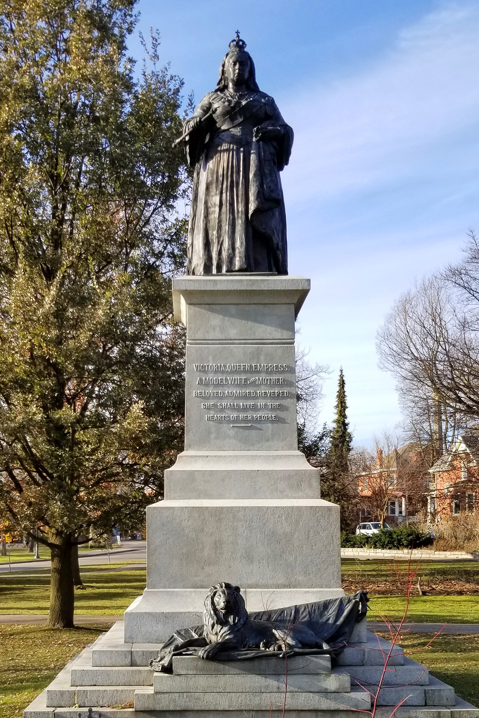 Victoria Park, Statue of Queen Victoria Kitchener , Ontario 142636